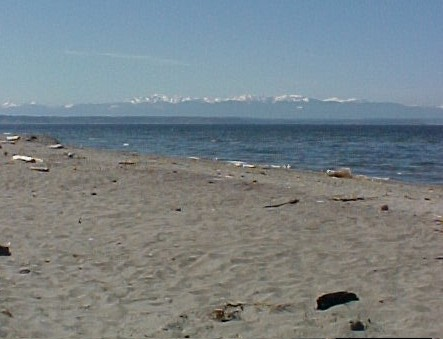 Maxwelton Beach. View west across Useless Bay and Puget Sound towards the perpetually snow-capped Olympic Mountains. Photo by Ron Kerrigan (WhidbeyIslander), 2004.